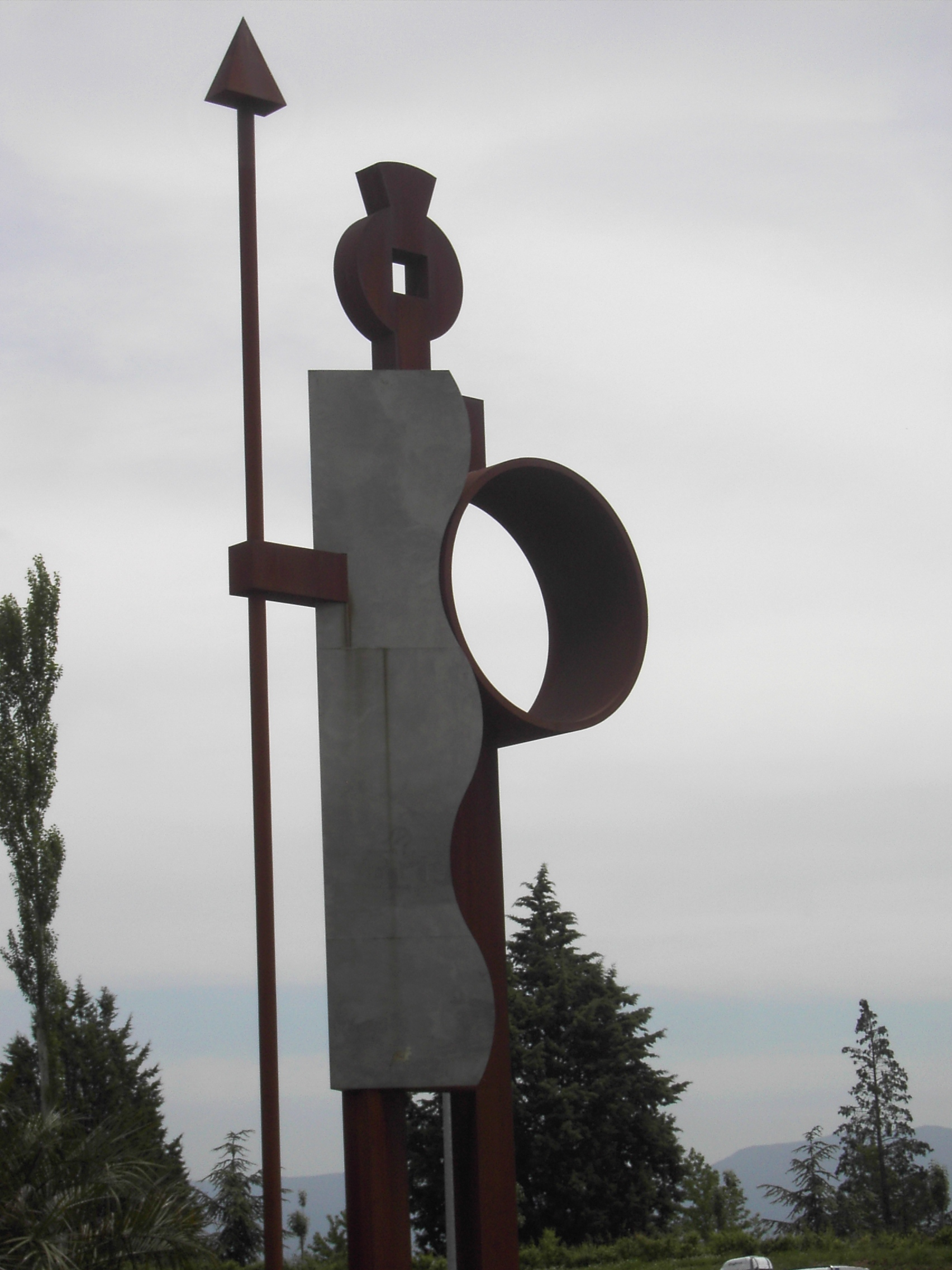 Homage to Íñigo Arista, Lord of Pamplona, by Juan Diego Miguel (2003)